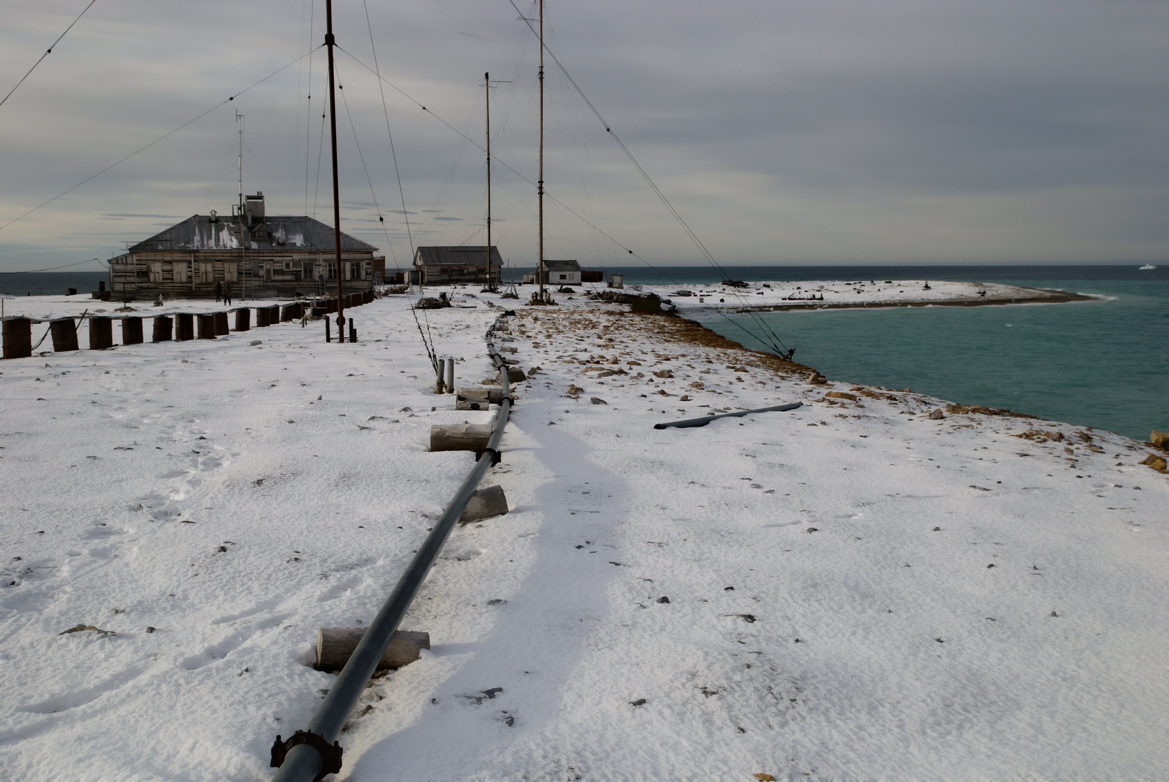 polar station at Golomyanny Island, Severnaya Zemlya